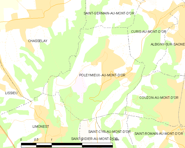 Map of French municipality